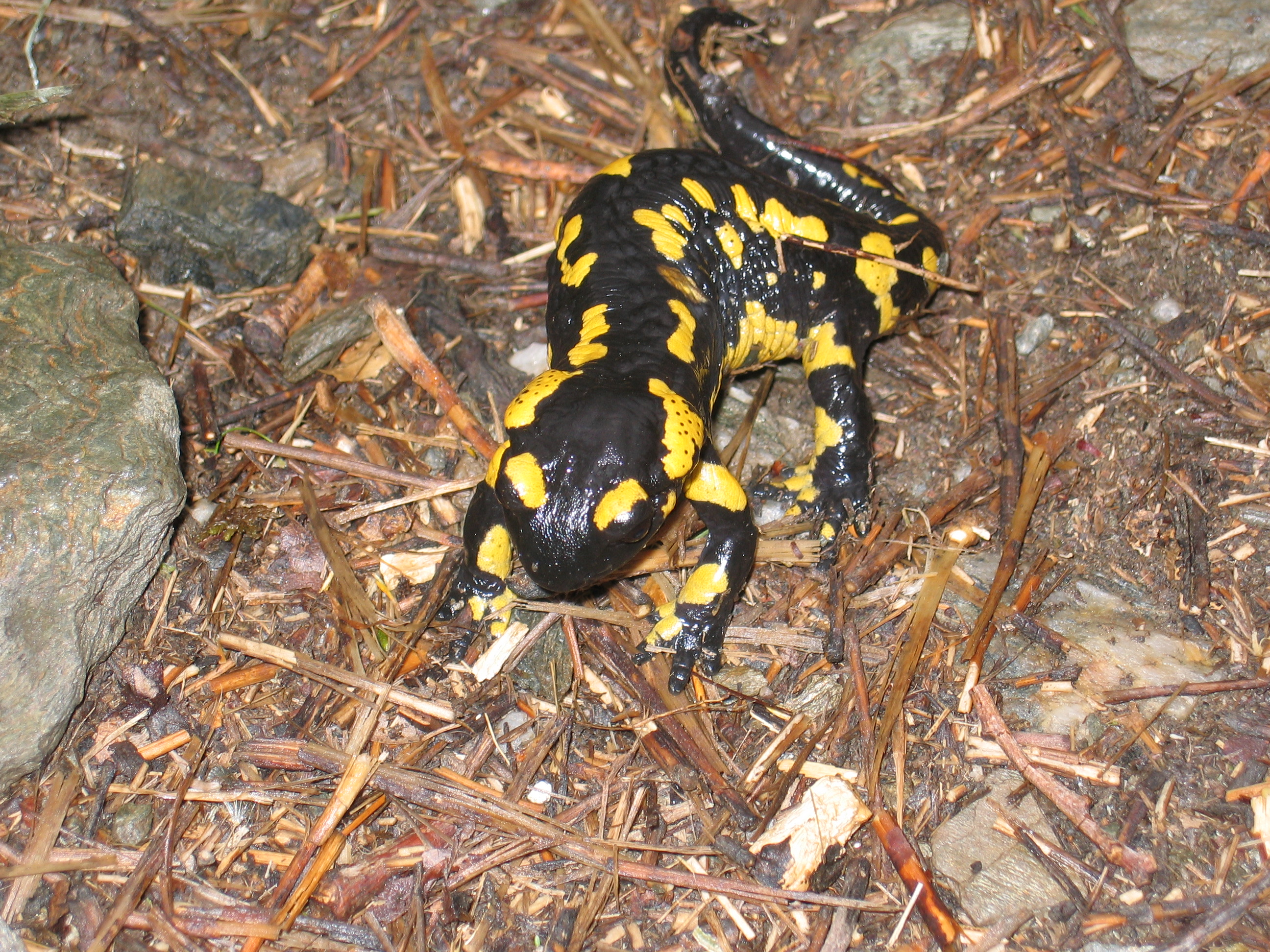 Fire salamander found near Queralbs (Spanish Pyrenees)